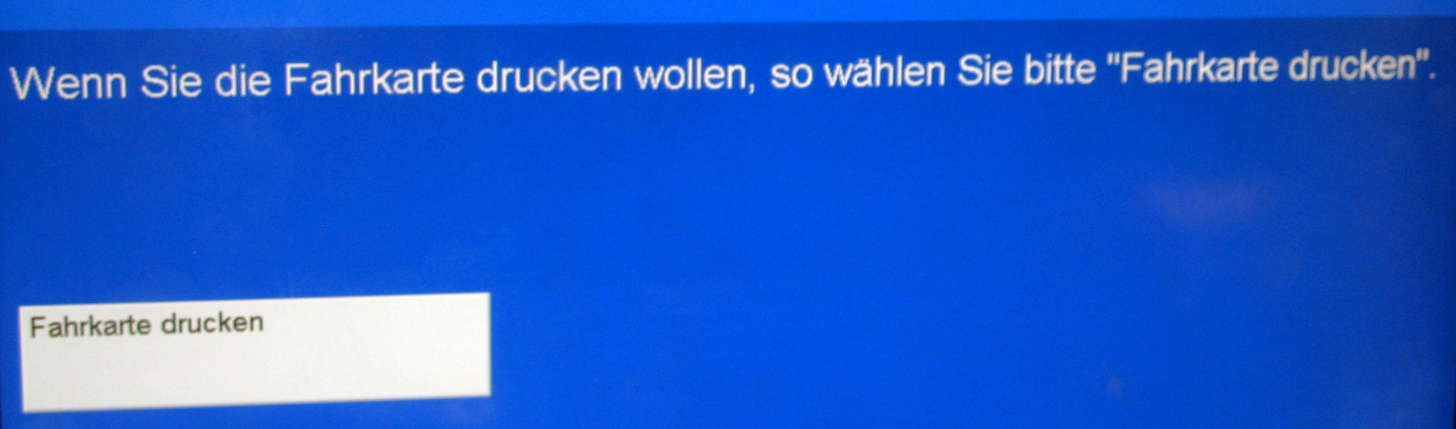 Redundant user information from a ticket machine at train station Aachen-West, Germany (translated message If you want to print the ticket, choose "Print ticket").